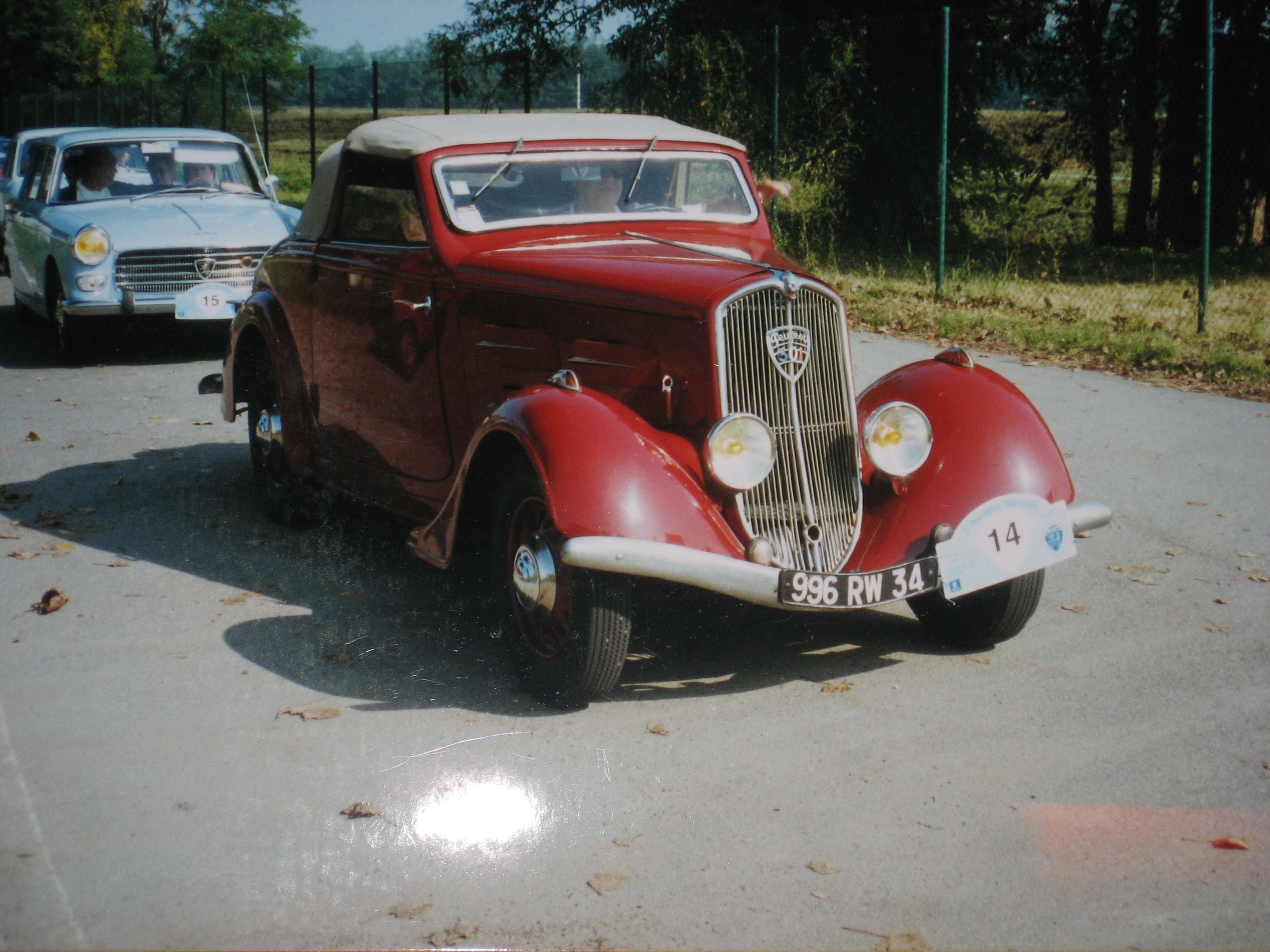 This picture shows a 1935 Peugeot 301 D Cabriolet. This photo was taken about 4 years and a half ago, in a little country in the northern Italy, during a meeting of ancient Peugeot cars. I release all rights in the public domain.